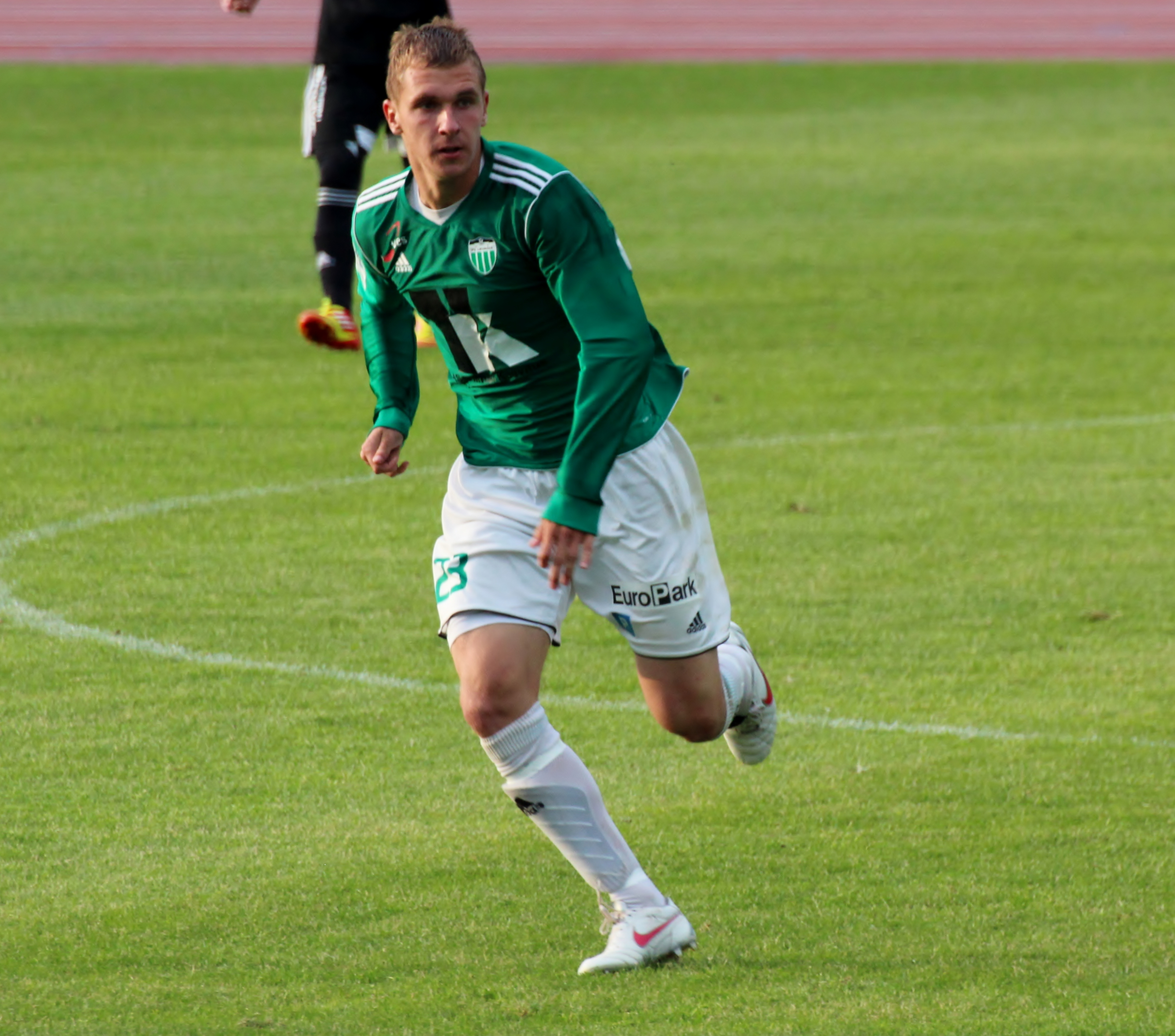 FC Levadia player Marek Kaljumäe playing against Nõmme Kalju